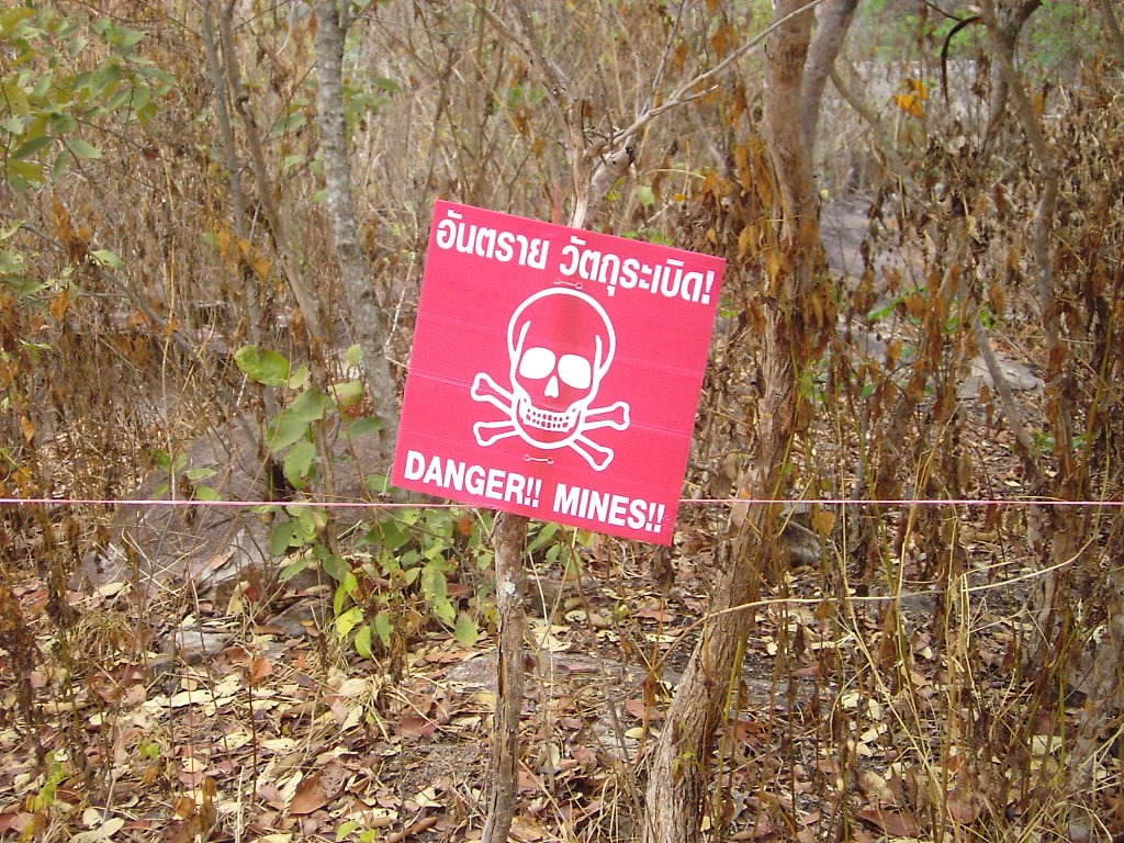 Khao Phra Wihan National Park warning sign: Danger!! Mines!!